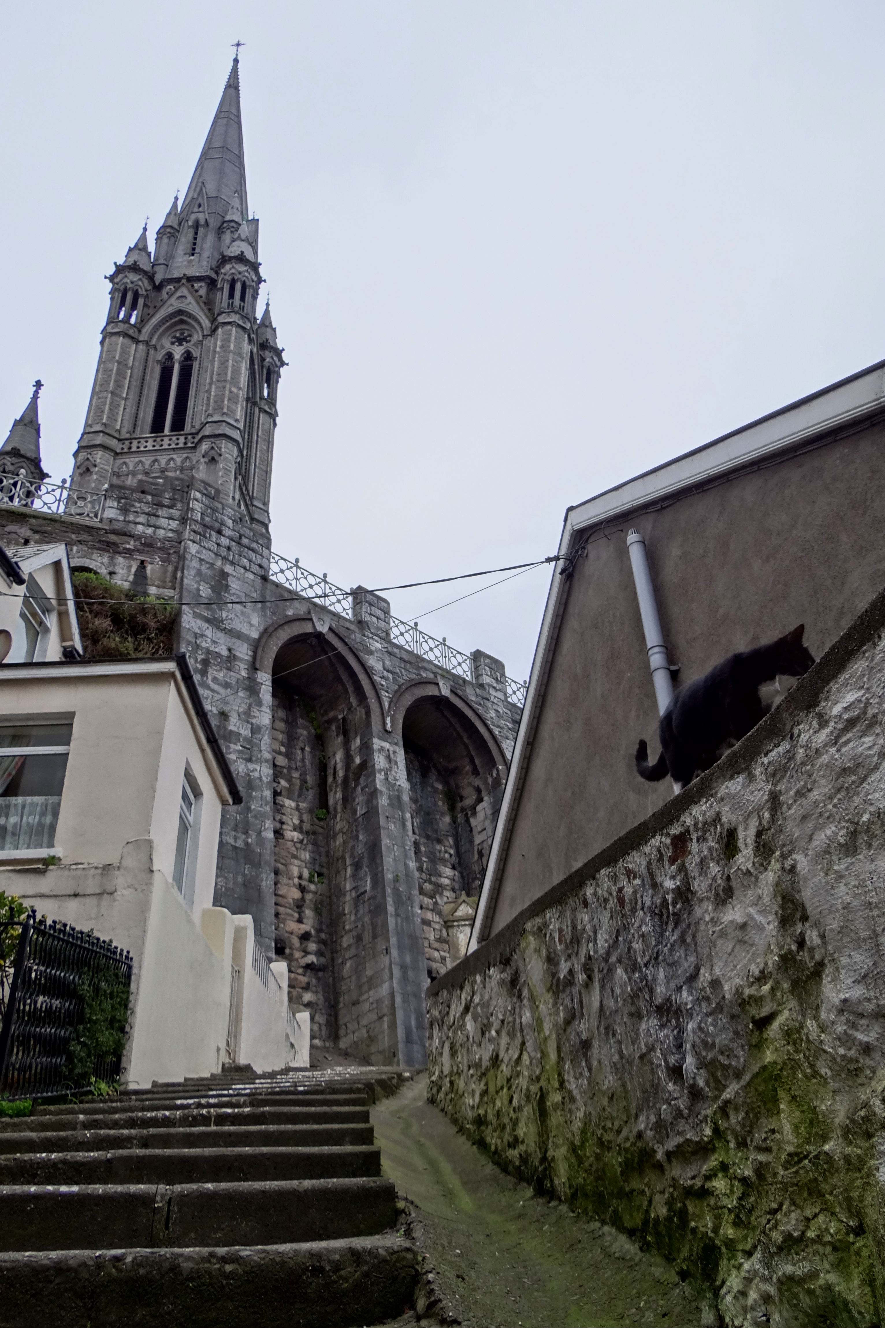 St. Colman's Cathedral as seen when approached directly from the town centre along a steep alleyway known locally as "The Rock".